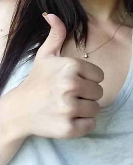 The first digit of the hand